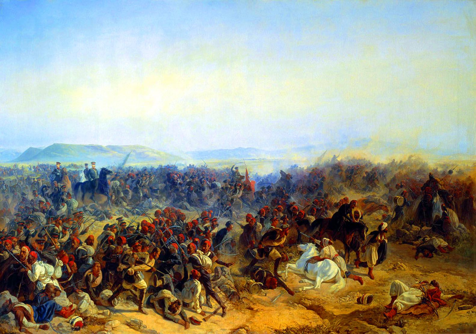 Crimean War (1854-1856), Caucasian theater of military operations